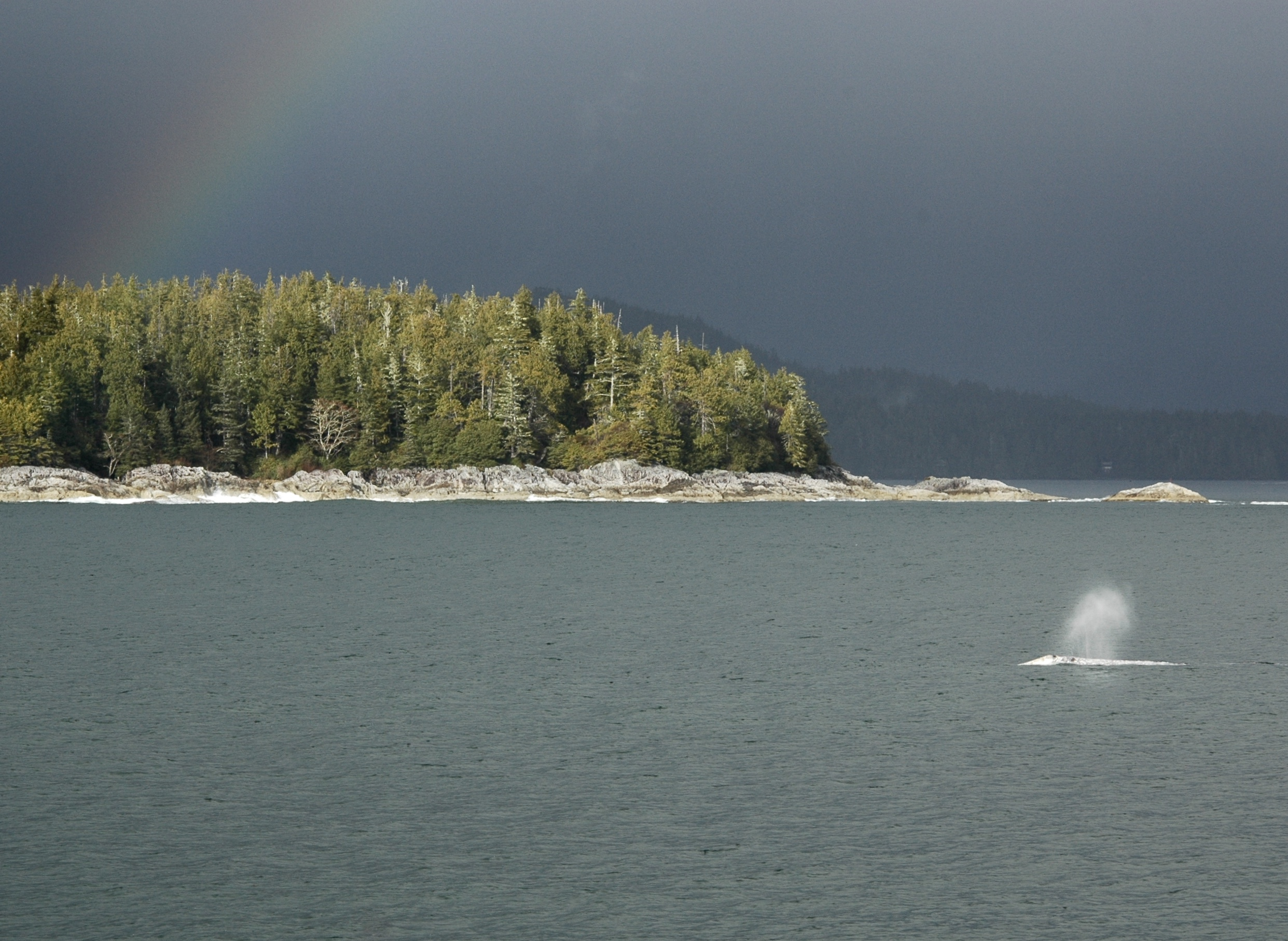 Grey Whale breaching